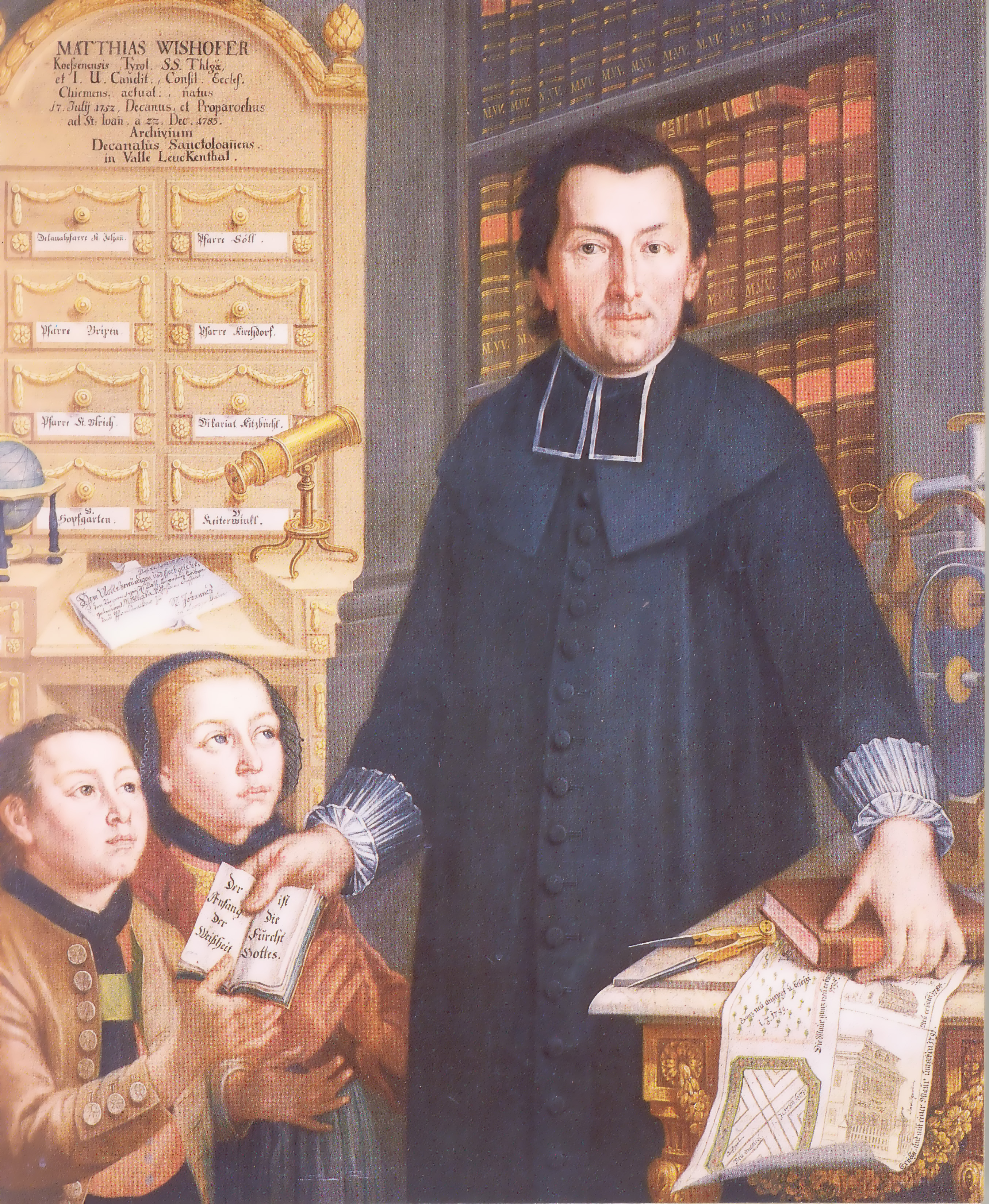 Matthias Wieshofer